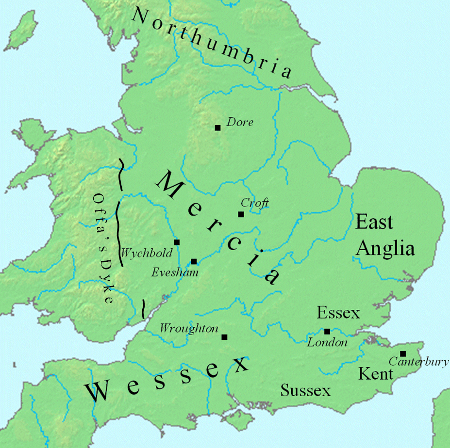 Map of England, showing places of interest to the Wiglaf of Mercia article. The file was created using DMIS. On that site it is stated that "We do not claim copyright on the images, so you can use them for Wikipedia." Commons:category:Maps of England